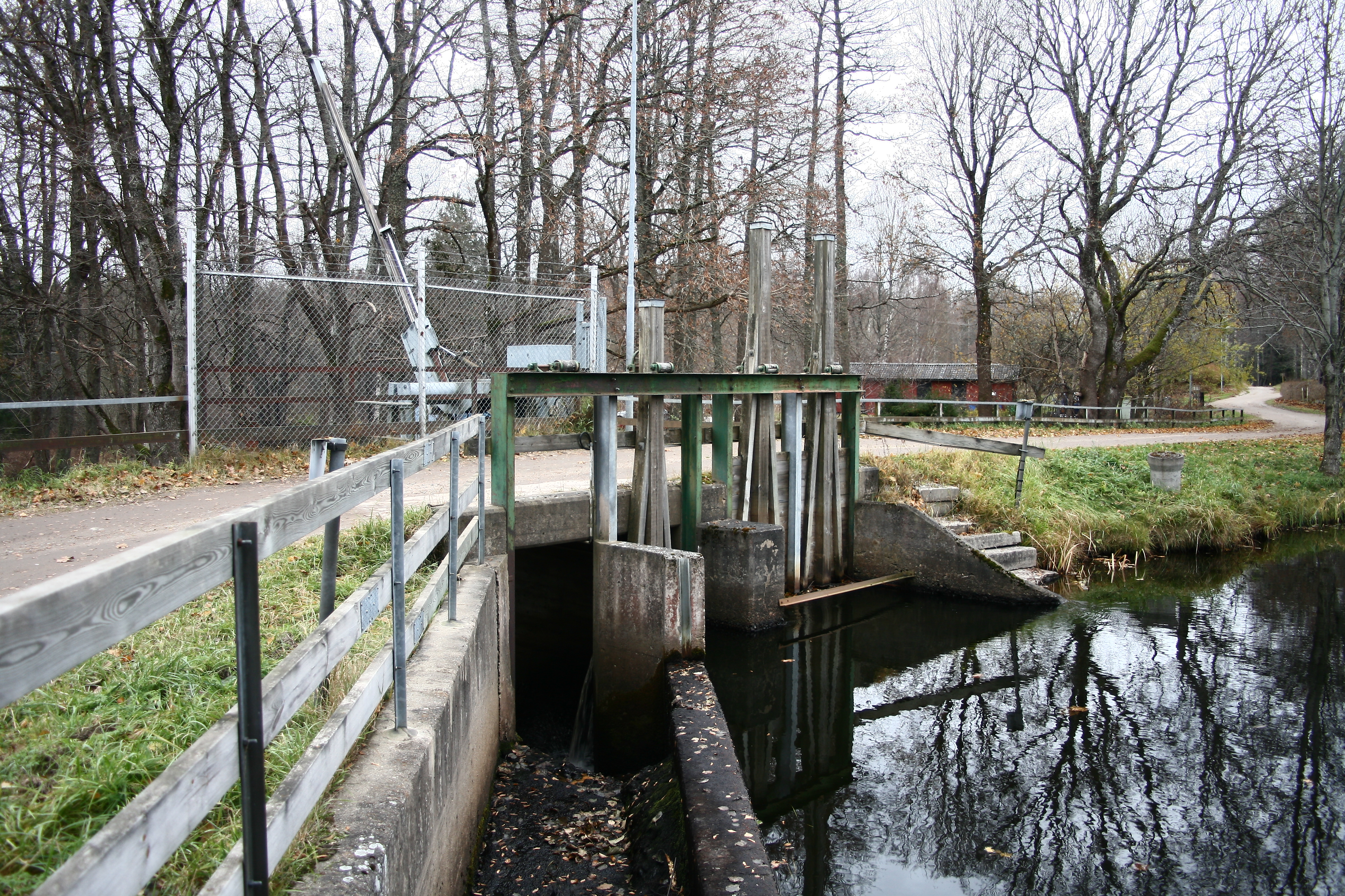 Dam at Skogaholm, Närke, Sweden, and a road bridge on top of it.